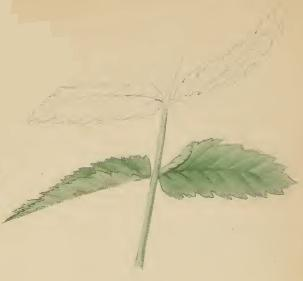 Stainton’s Natural History of the Tineina (1855–1873): Parornix scoticella some leaflets of Sorbus aucuparia with turned-down edges